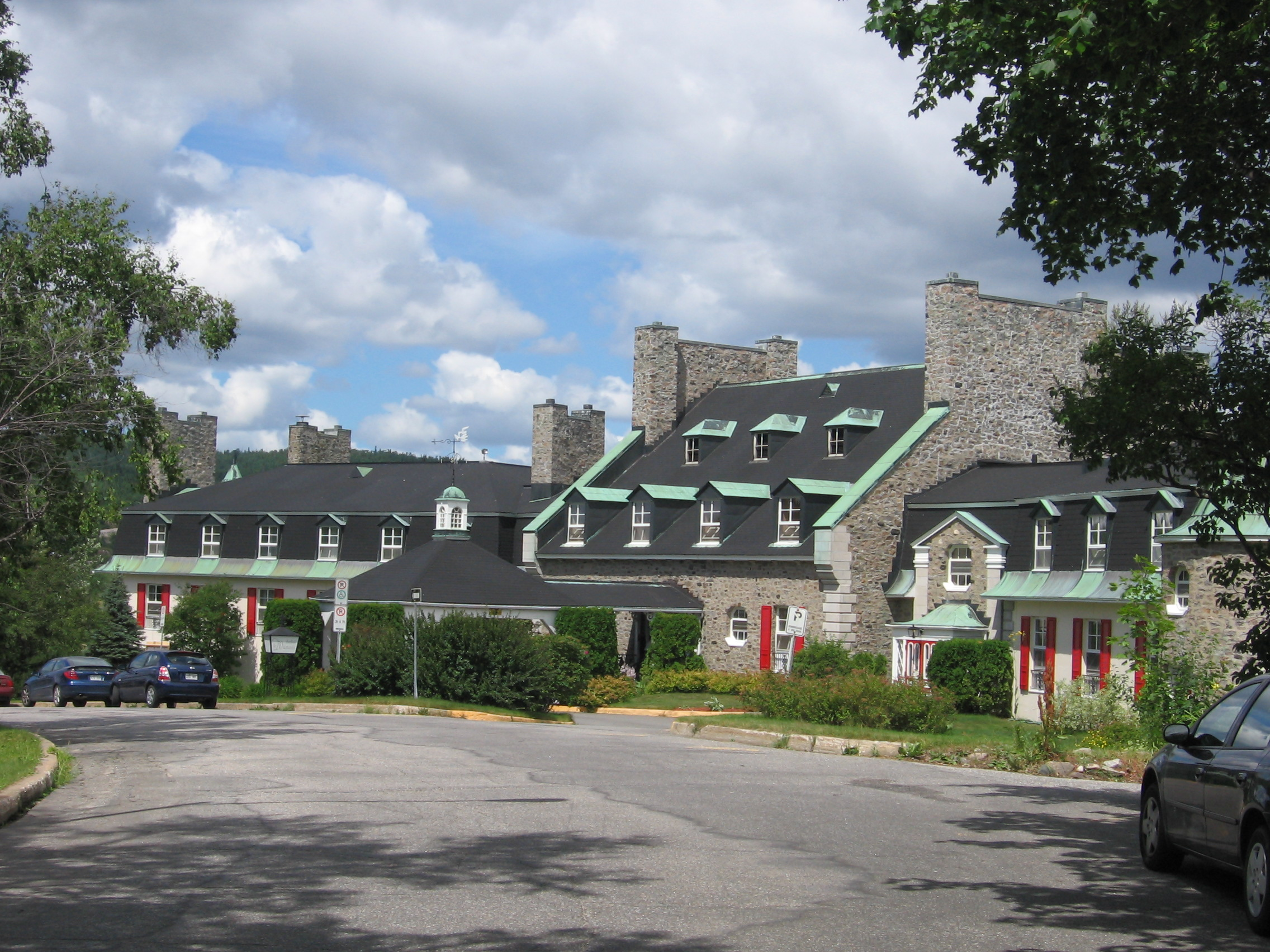 Hôtel le Manoir in Baie-Comeau, Québec